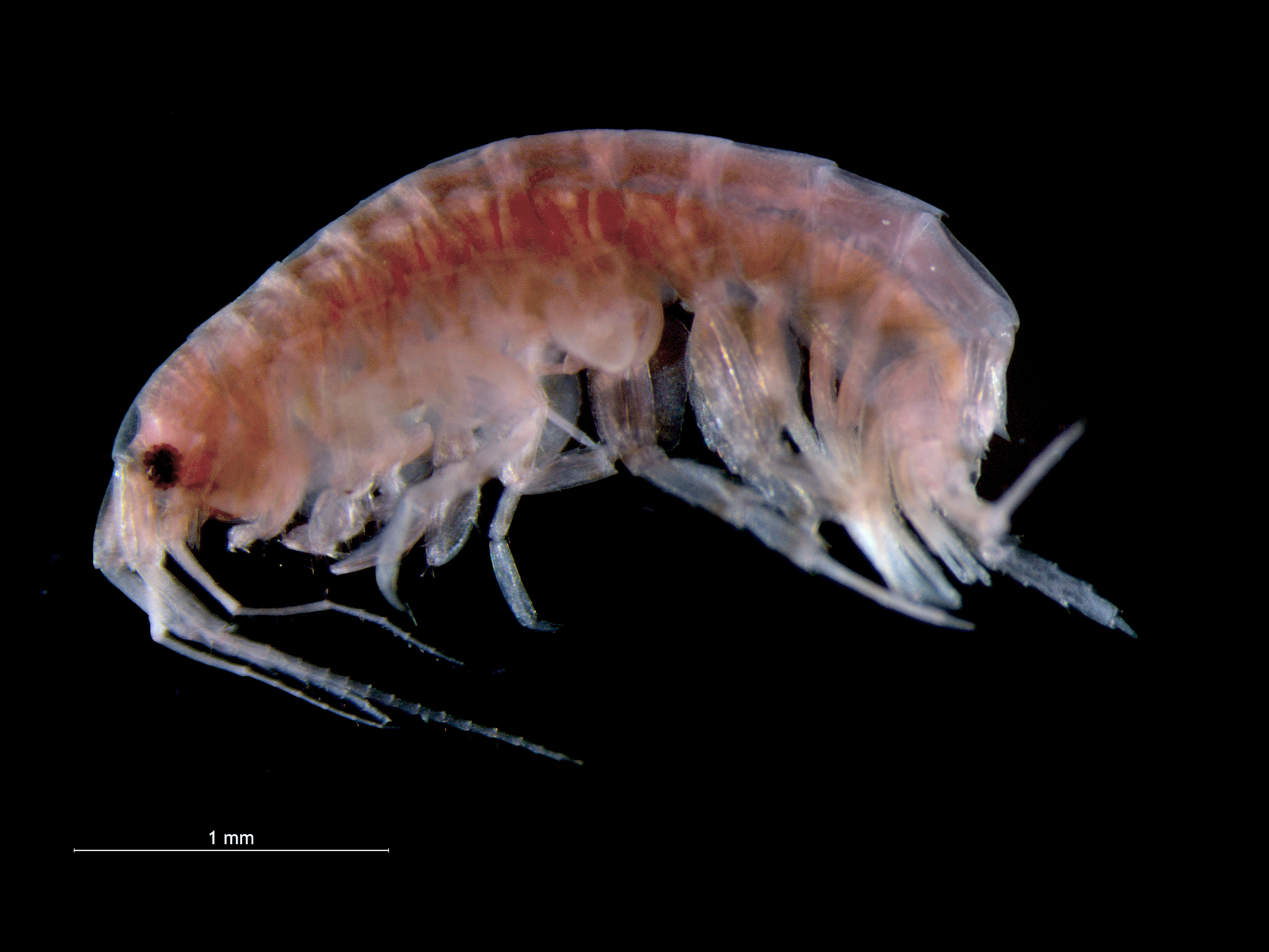 A female amphipod sampled on mid-sized sediments on the Northern part of the Buitenratel, on the Belgian Continental Shelf in 2011. This image was created with CombineZP.